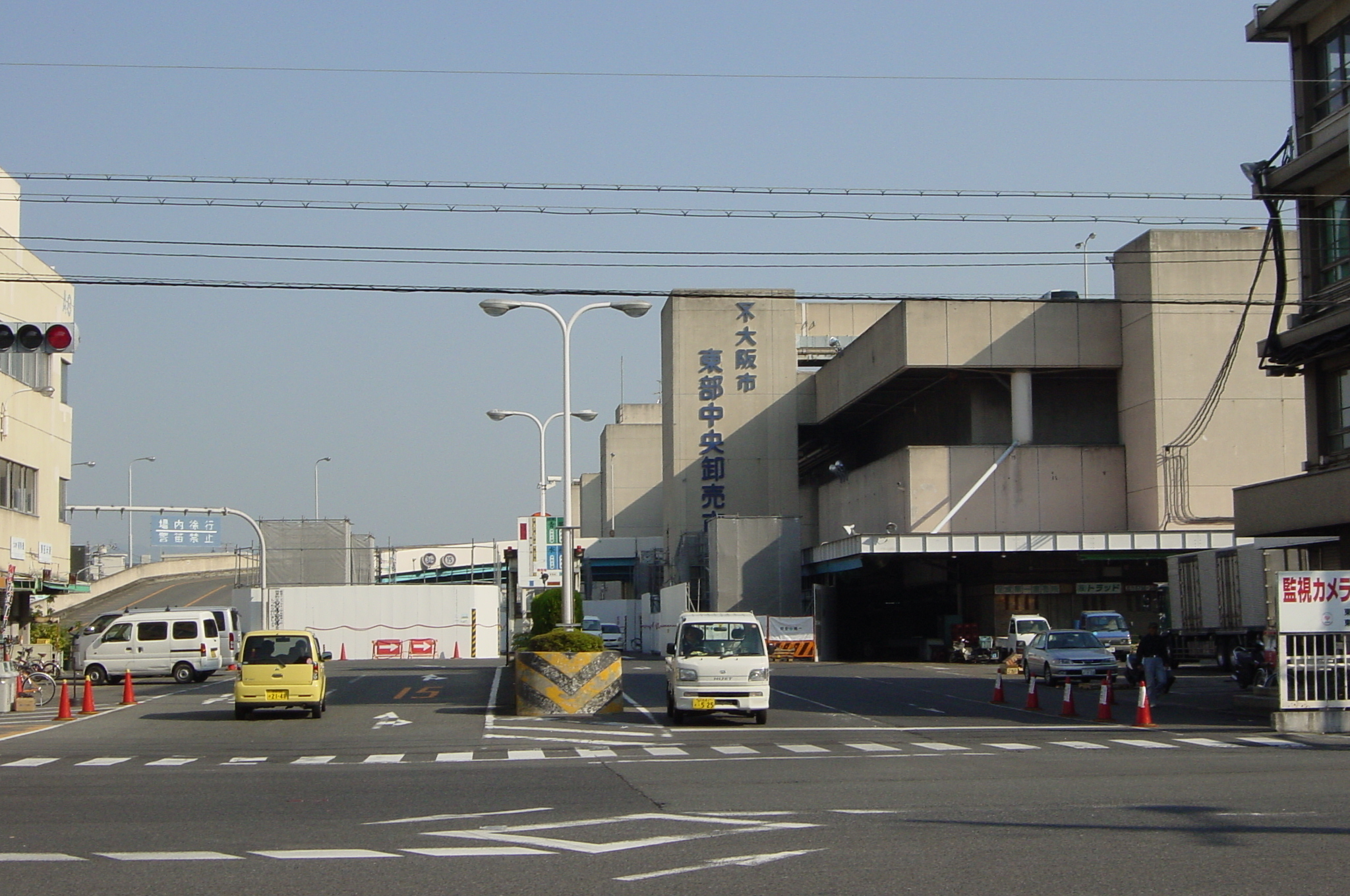 Osaka toubushijou